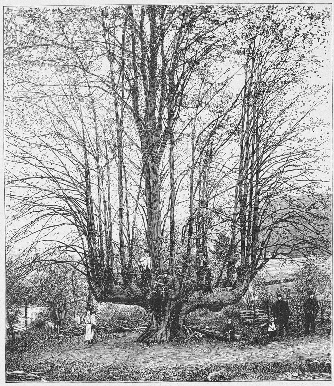 caption: "Deutschlands merkwürdige Bäume: die Priorlinde an der Klus bei Dahl im Sauerland."